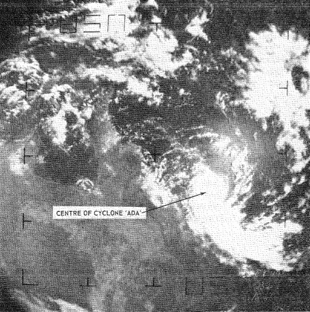 ESSA-8 satellite image of Cyclone Ada on January 17, 1970, off the eastern coast of Queensland.